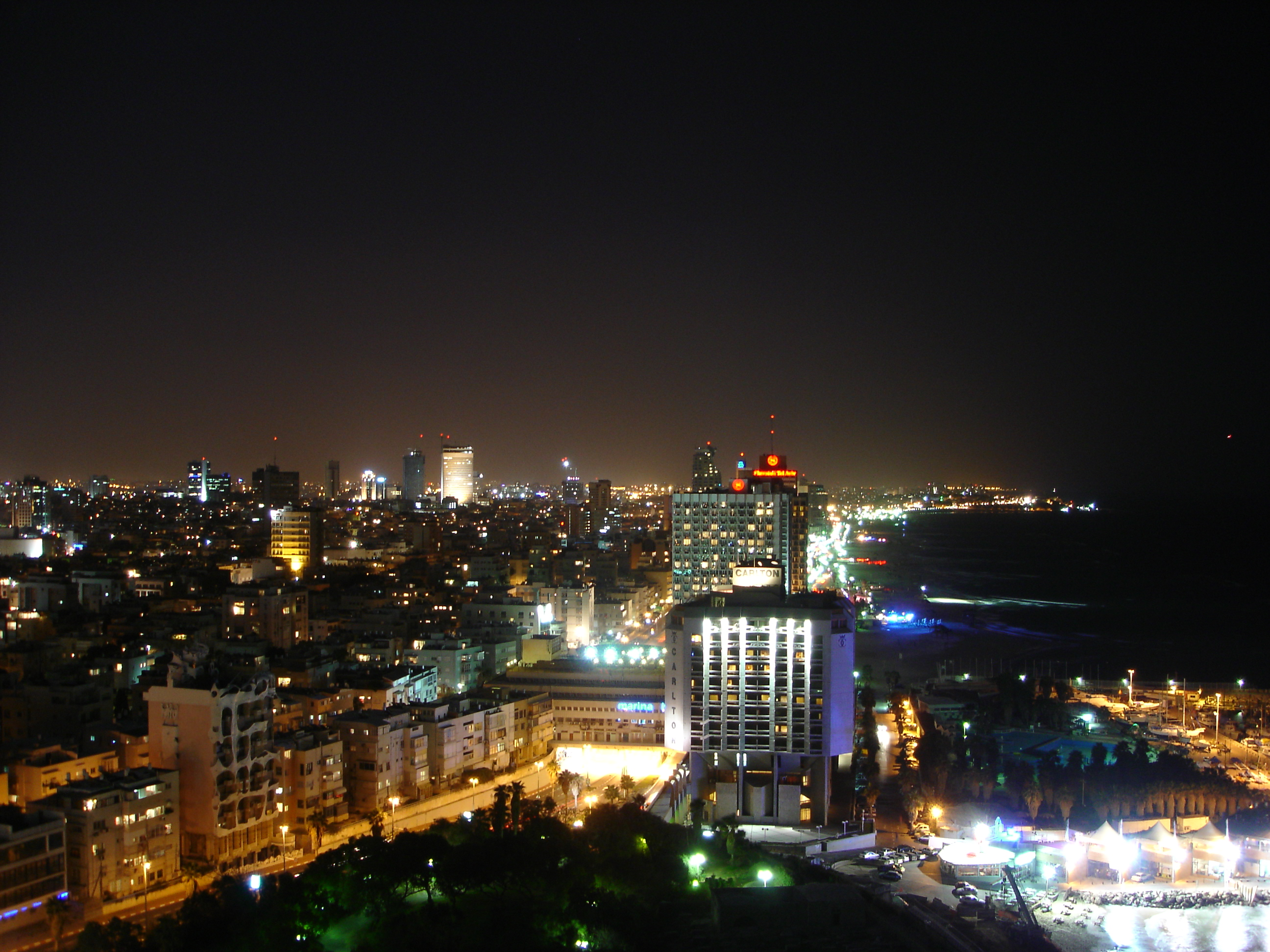 Tel Aviv at night. Looking south along the coast, toward Tel Aviv marina.